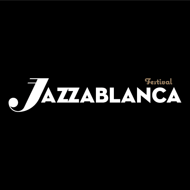 Le logo du festival Jazzablanca